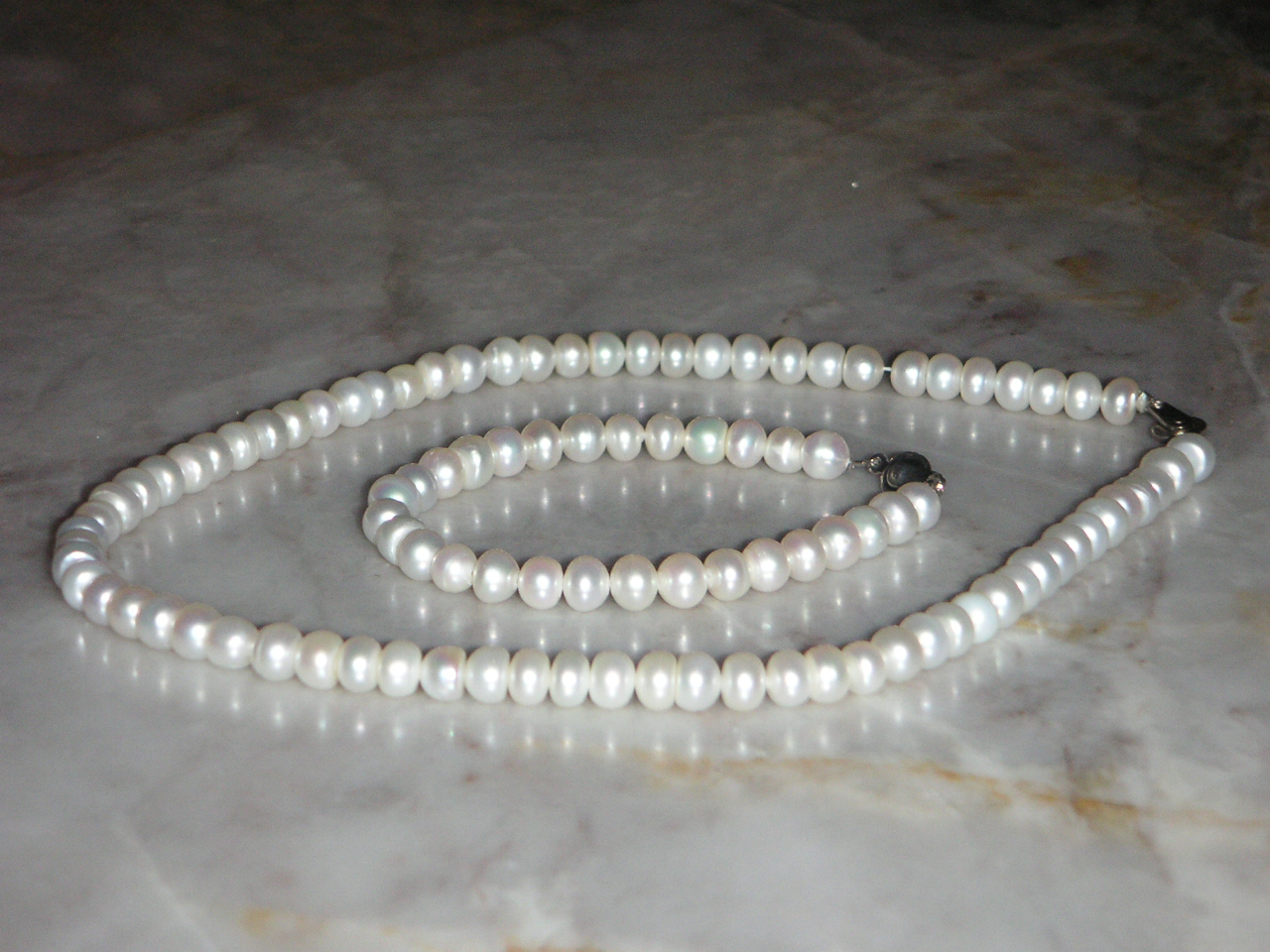 Author's own picture. Pearl necklace and bracelet.